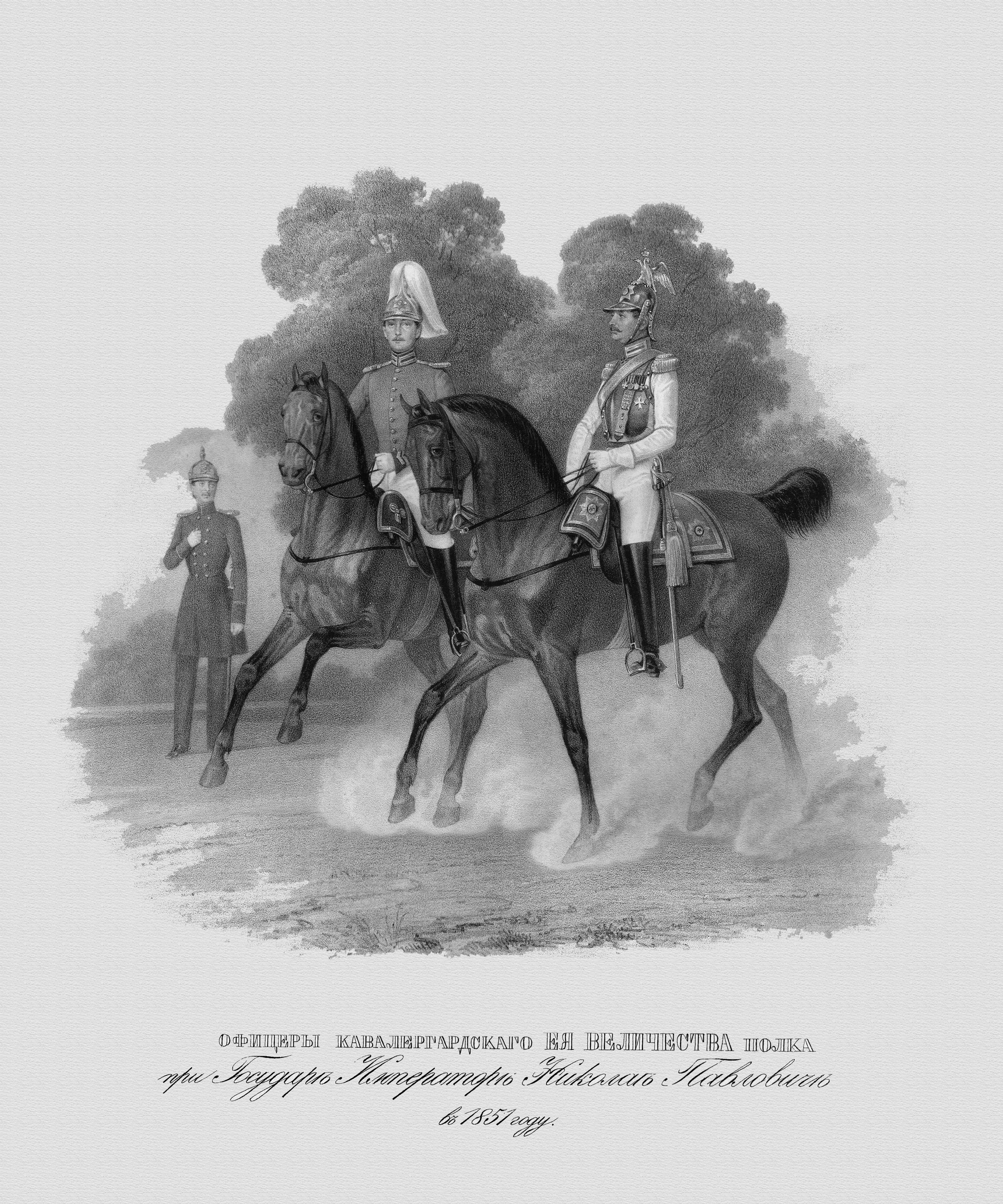 Uniformes officiers Chevaliers Gardes 1851.